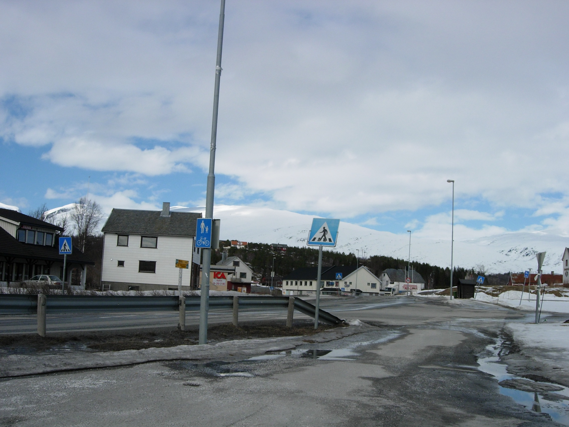 Valnesfjord i Fauske kommune Valnesfjord in the municipality of Fauske in Norway